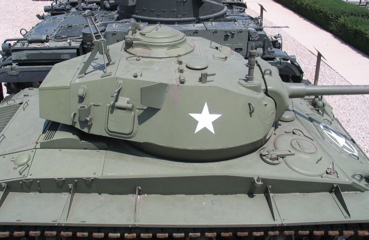 M24 Chaffee light tank in Yad la-Shiryon Museum, Israel. Mislabeled as M4A3.